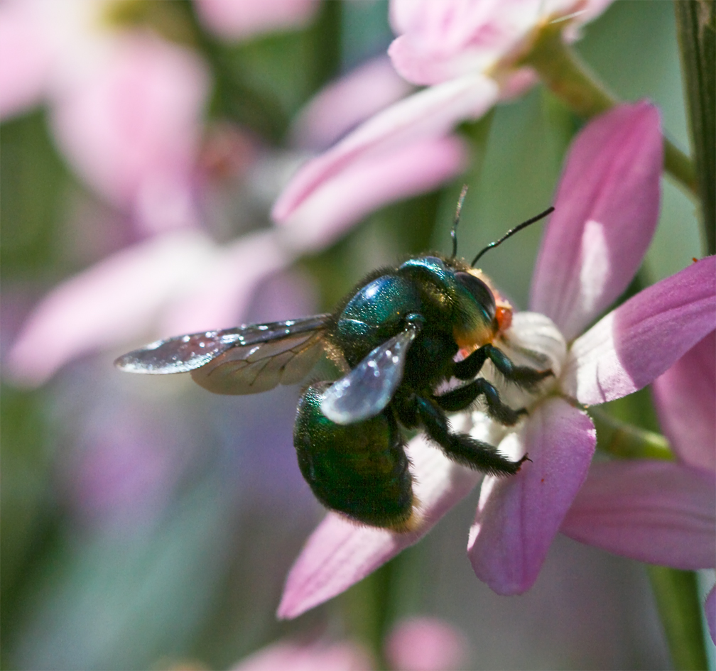 Golden-green Carpenter Bee (Xylocopa aeratus) in a Sydney garden